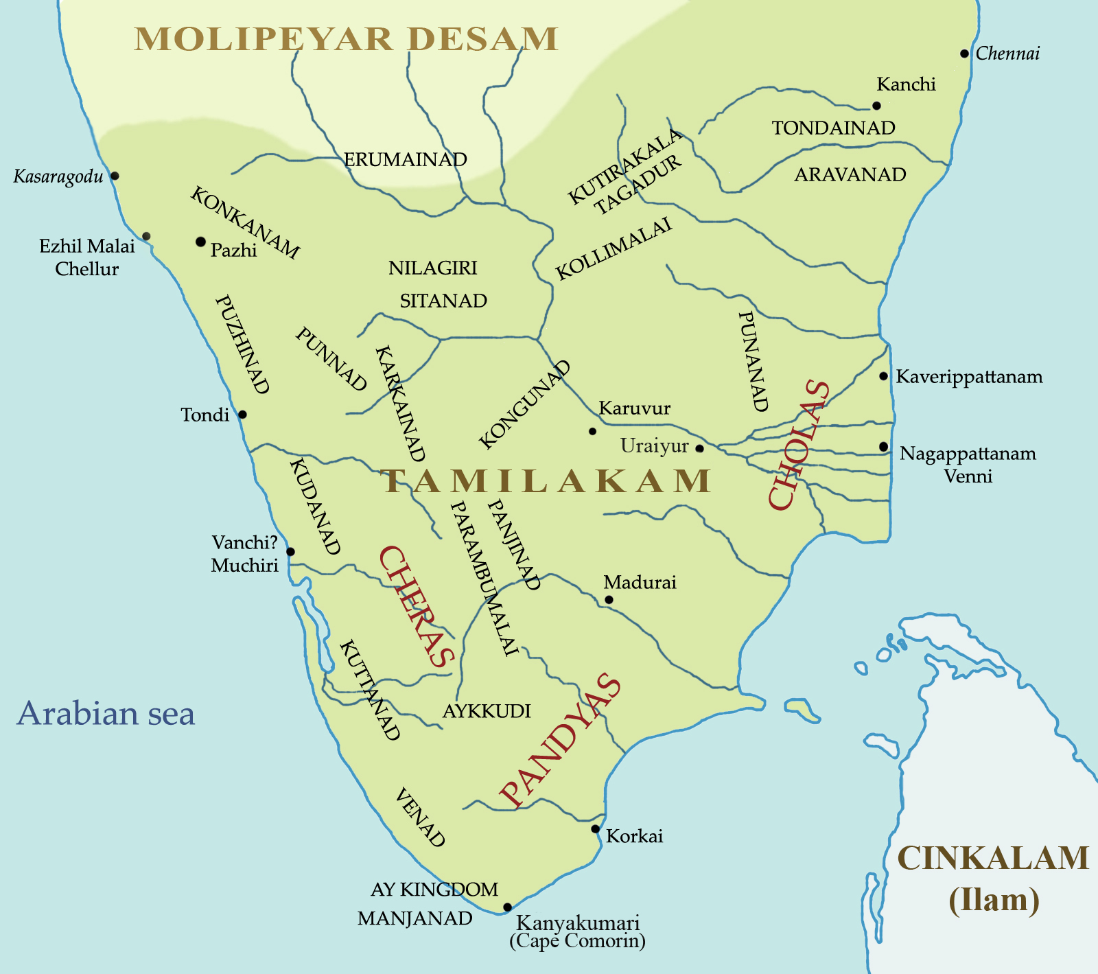 South_india_in_the_Sangam_period, an approximate representation A couple of references for the names Tamils used for SriLanka: 1. Cinkalam (சிங்களம்); 2. Ilam (ஈழம்). A few more references are given in this image.